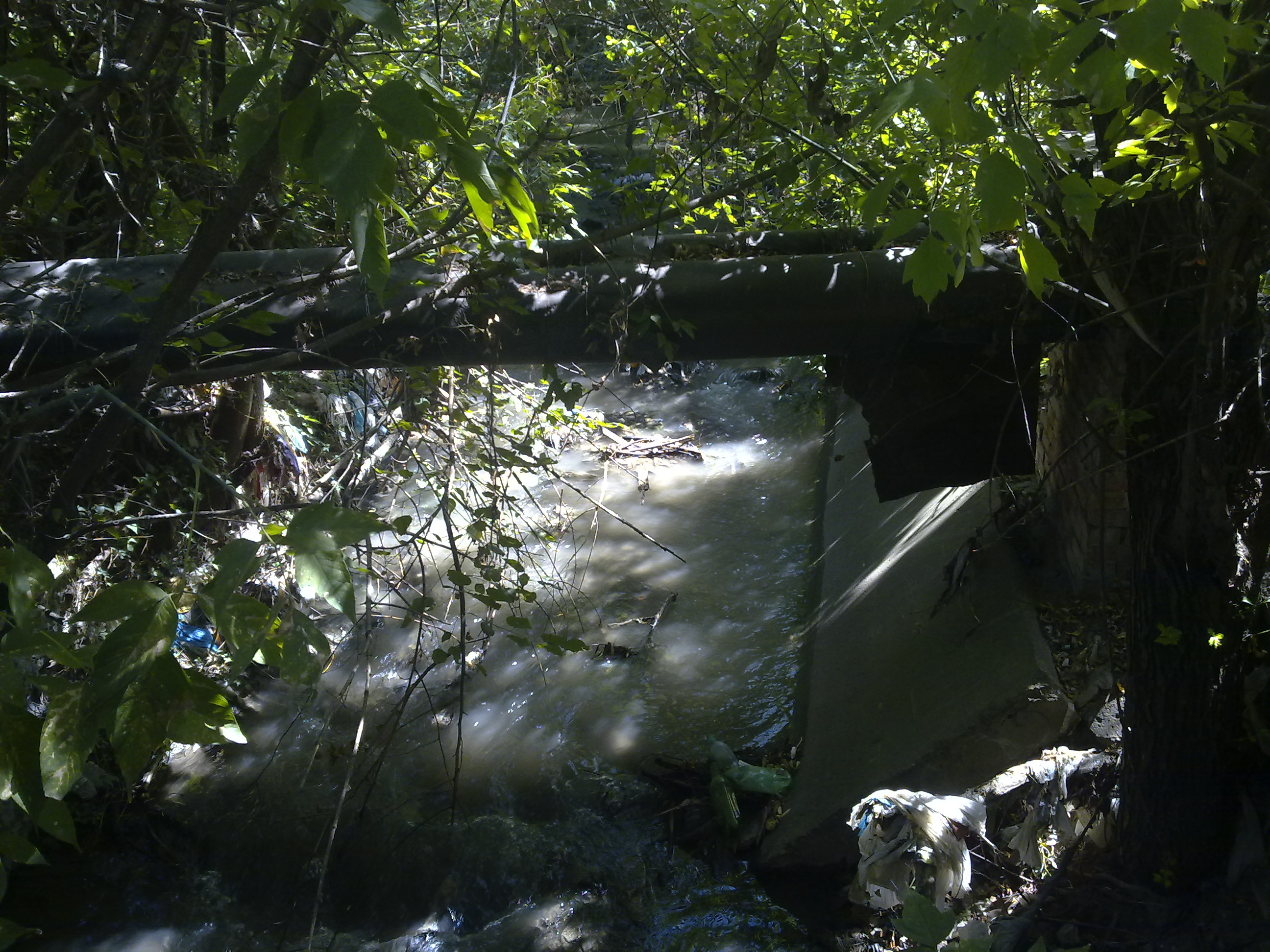 Bezymyanny stream in Rostov Zoo.